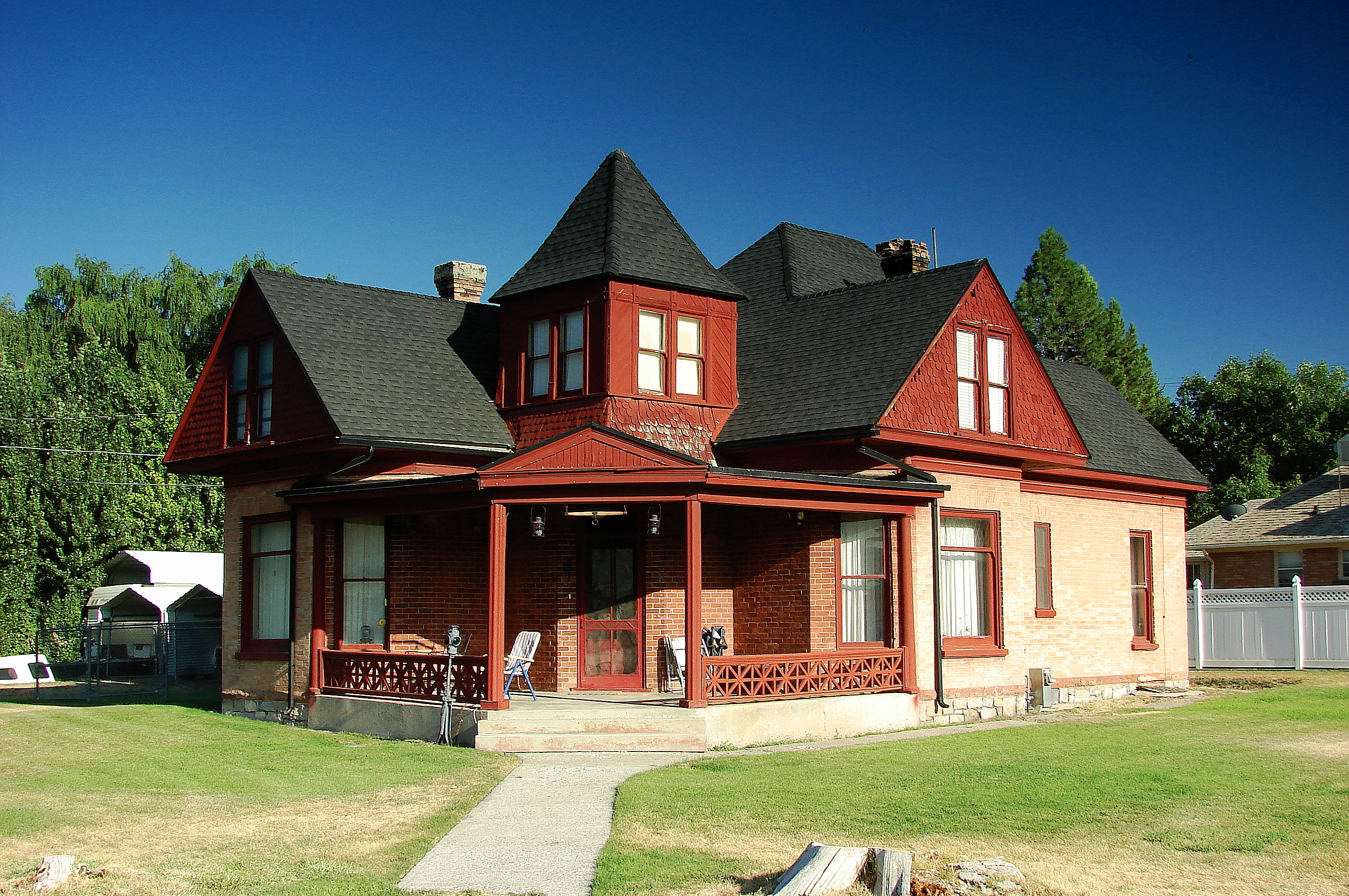 Located in the Payson, Utah National Historic District.